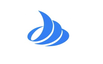 Flag of Minakami Gunma